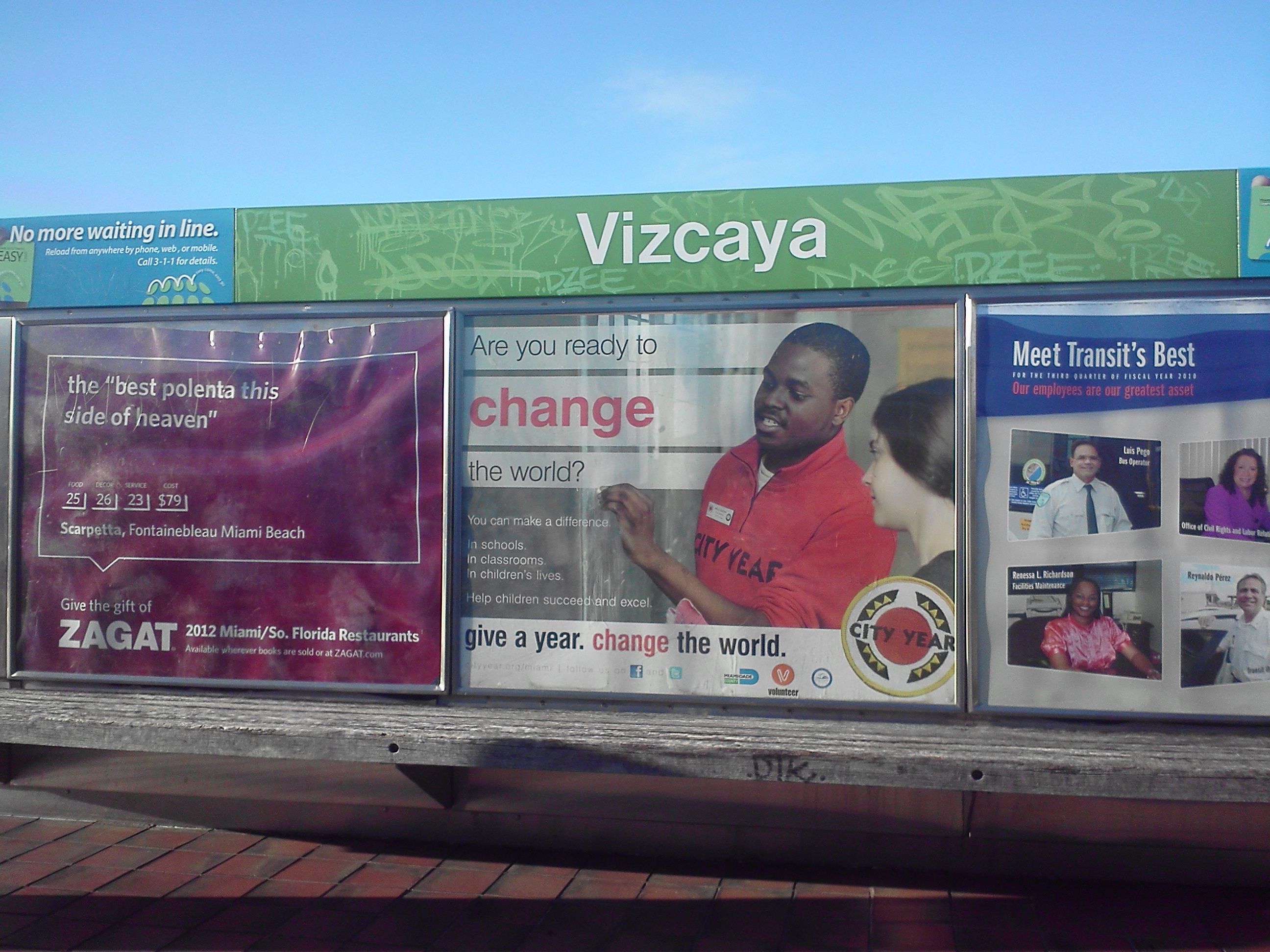 Vizcaya (Metrorail station)